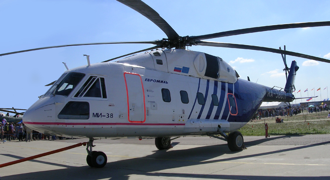 Mi-38 helicopter (RA-38011) on MAKS-2005 airshow